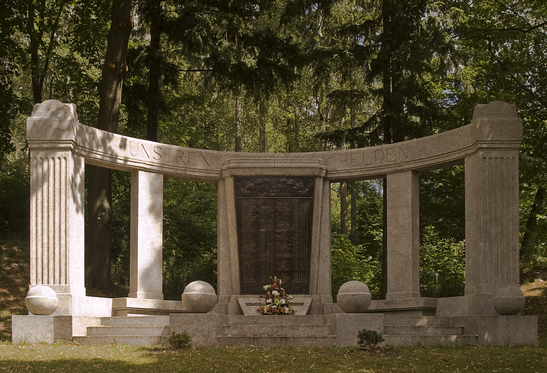 The monument was inaugurated in 1925 originally for the fallen city Lengsfelder in World War 1. The name board the 79 dead are listed. In 1993, an extension of the tribute to the victims of World War 2 and the Nazi tyranny. The monument was restored in 2012.